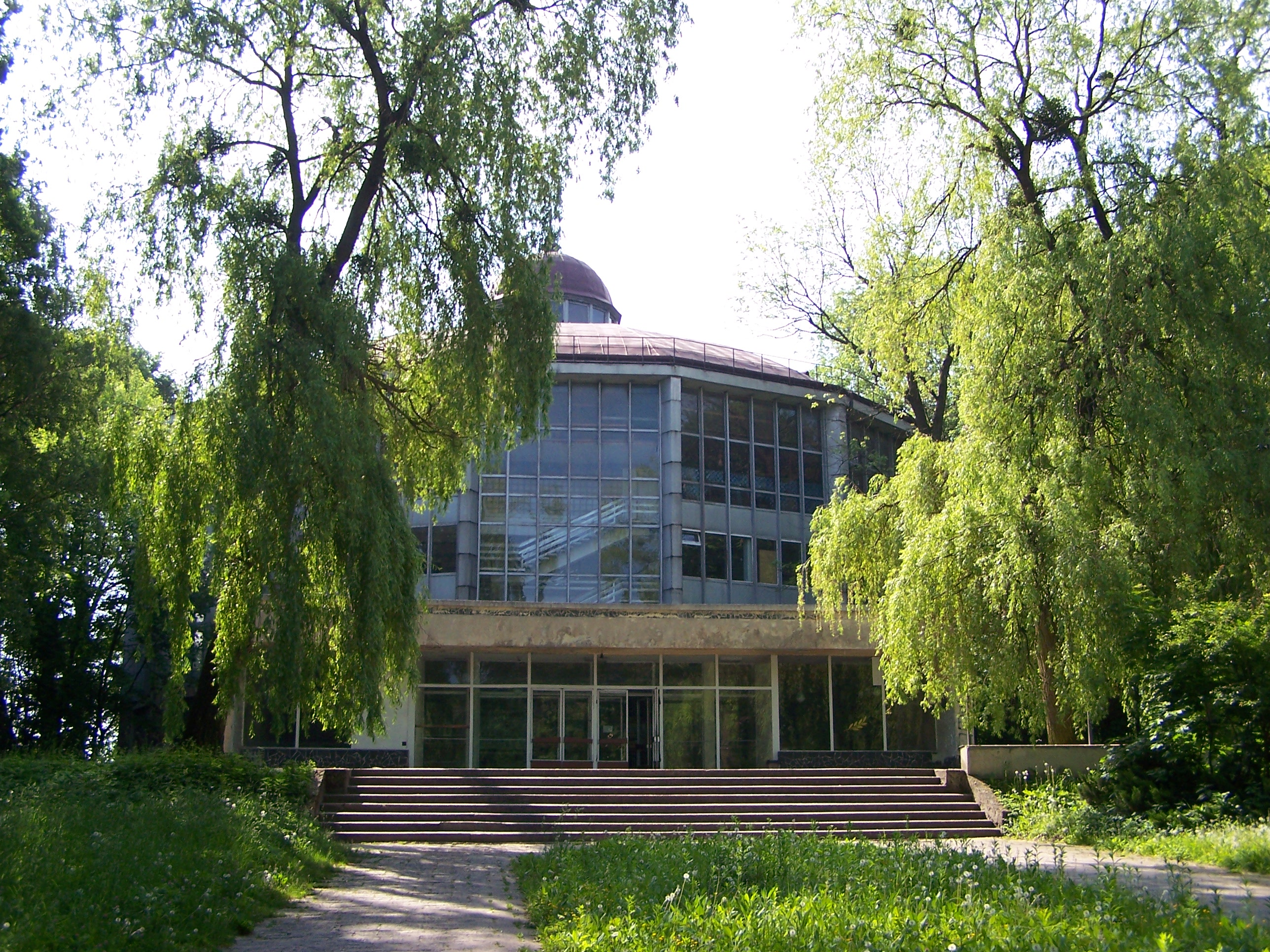 Stryjski Park in Lviv (Ukraine).